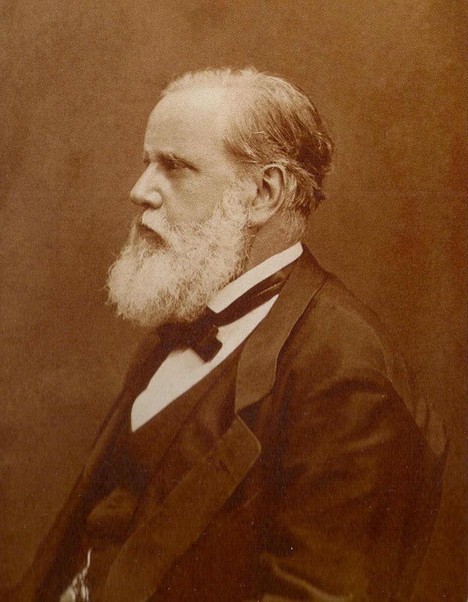 Pedro II of Brazil, 1880.